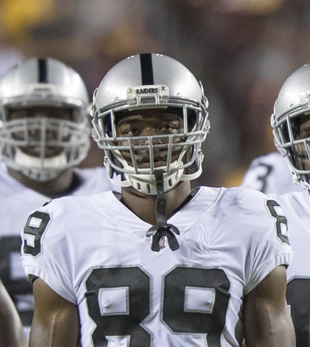 Oakland Raiders wide receivers, Amari Cooper, Michael Crabtree, and Seth Roberts, during a game against the Washington Redskins on September 24, 2017.